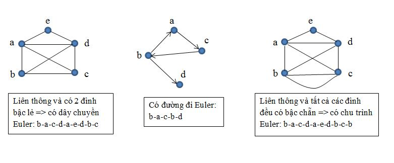 ViDu DoThiEuler